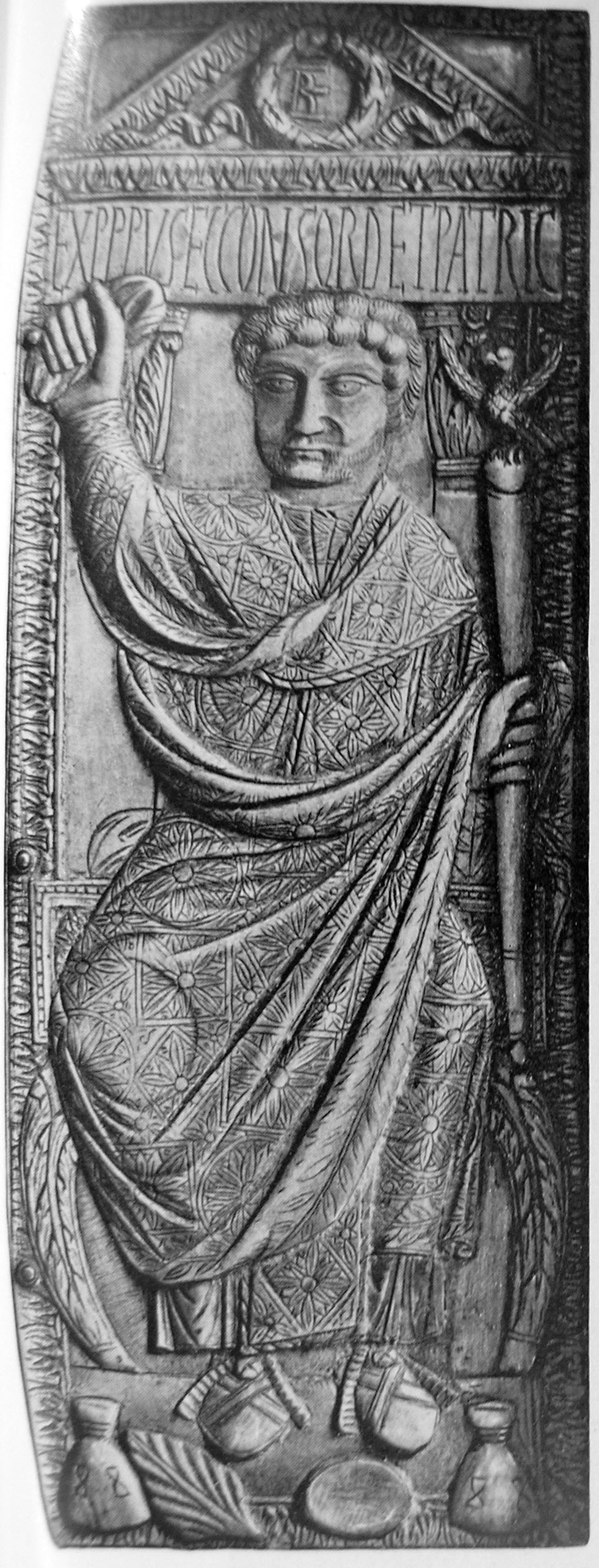 The consular diptych of Manlius Boetius (thought to be the father of philosopher Severinus Boetius) who was Consul in 487 AD. Exhibited in the archaeological Santa Giulia Museum, in Brescia, Italy. Photograph from Ludwig von Sybel, Christliche Antike, vol. 2, Marburg, 1909.